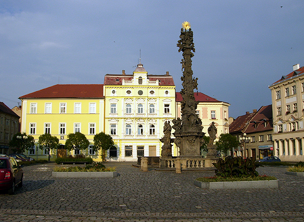 Main square in Duchcov, Czech Republic.